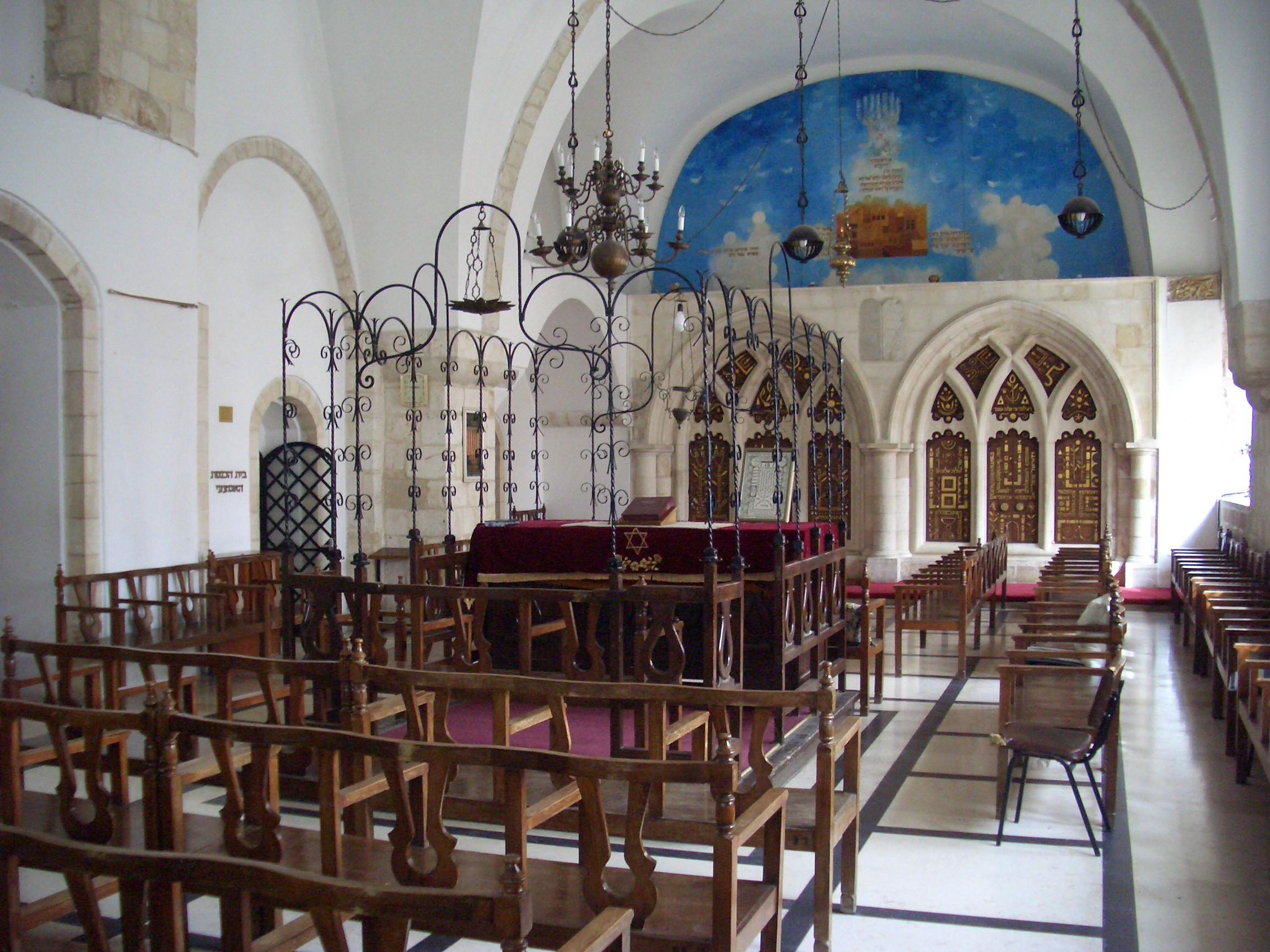 Old Jerusalem, Jewish quarter, Yohanan ben Zakkai Synagogue.